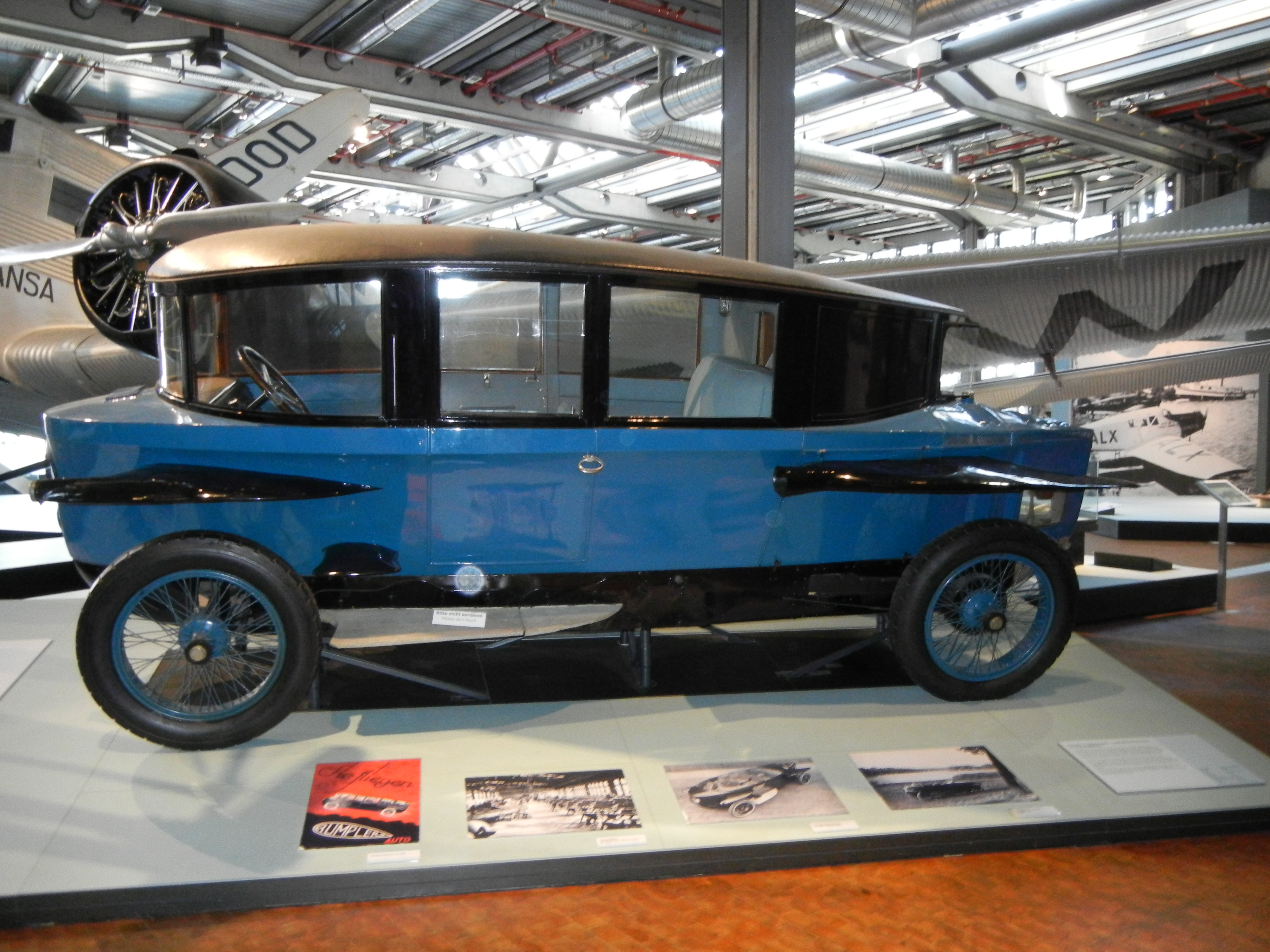 Rumpler Tropfenwagen at Deutsches Technikmuseum Berlin